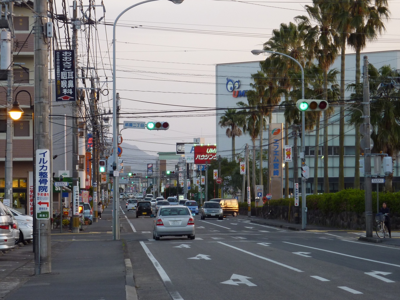 The Miyazaki Prefectural Road Route 26 in Gion, Miyazaki City